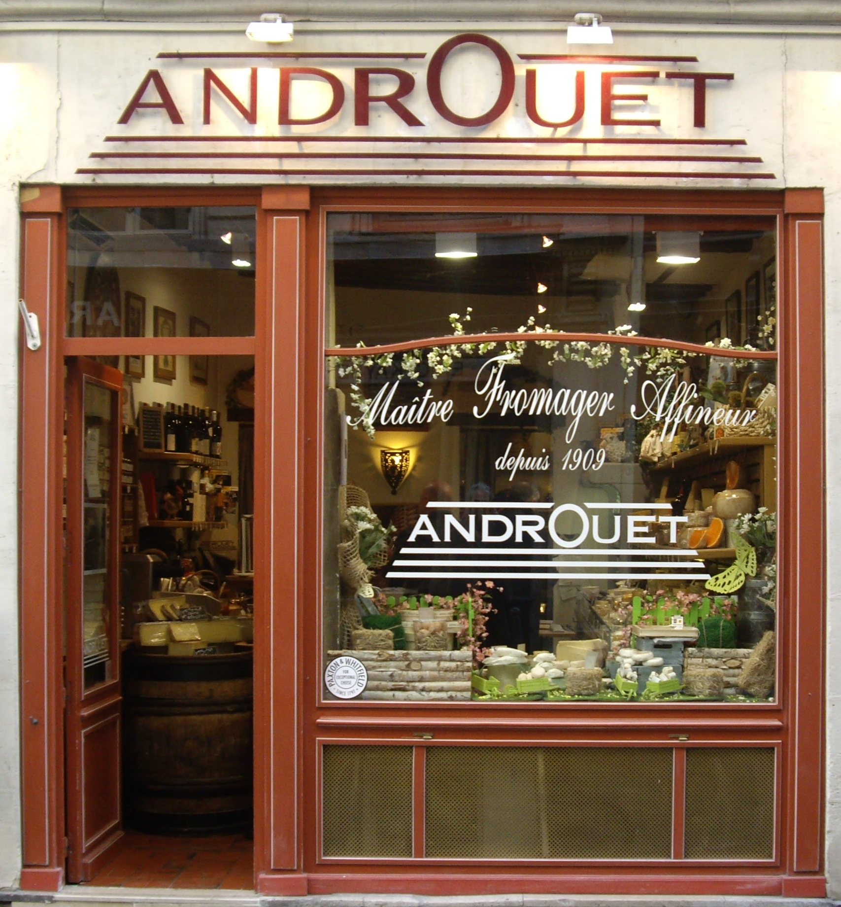 Front of 'Androuet' cheese shop in Rue de Verneuil, Paris 7e.